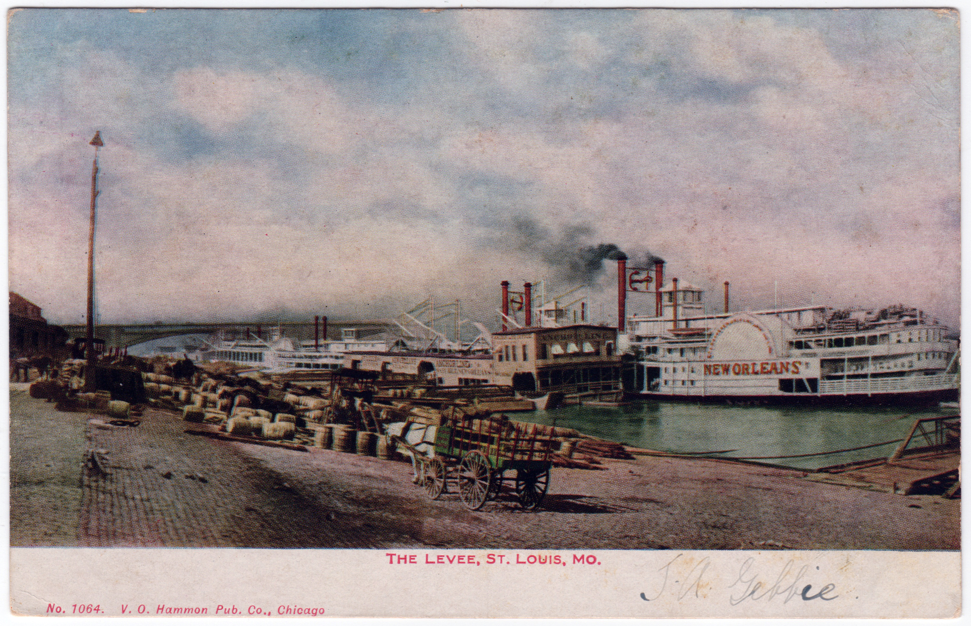 Postcard of the Levee at St. Louis, Missouri (USA). View ca. 1895; published by V. O. Hammon Publishing Company, Chicago, Illinois (USA). Published ca. 1907 or later; never mailed.